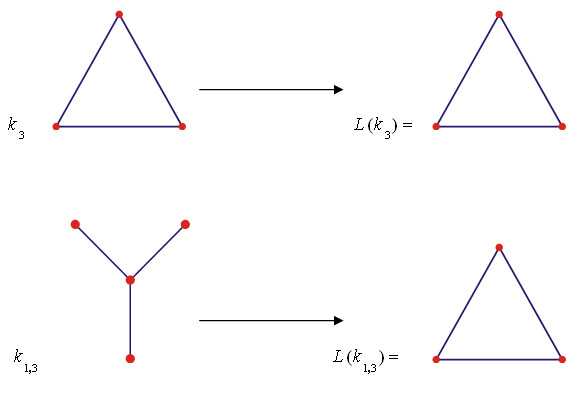 geraoh-khat1